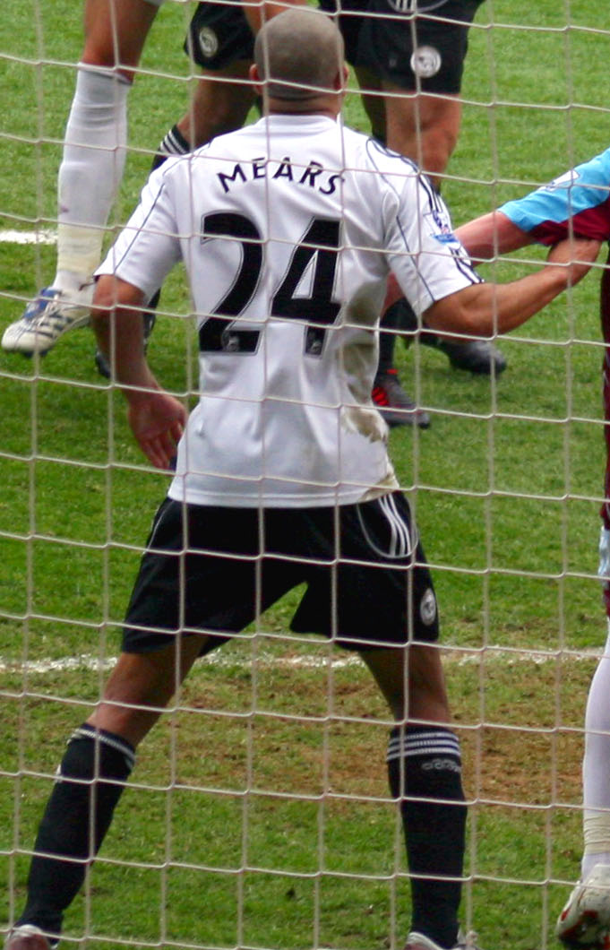 Tyrone Mears. Image cropped from original at flickr.